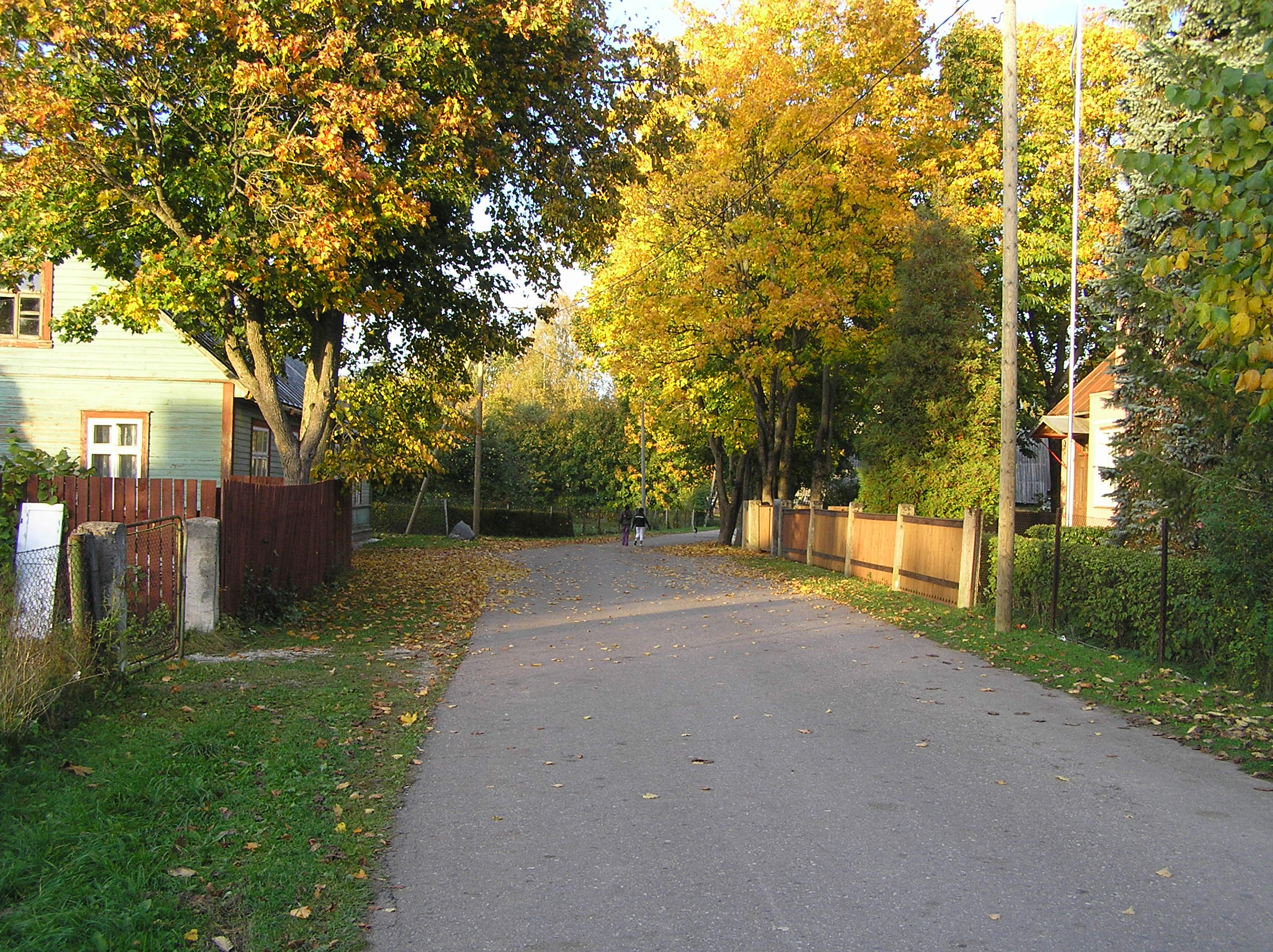 A typical neighborhood street in Tapa, Estonia.